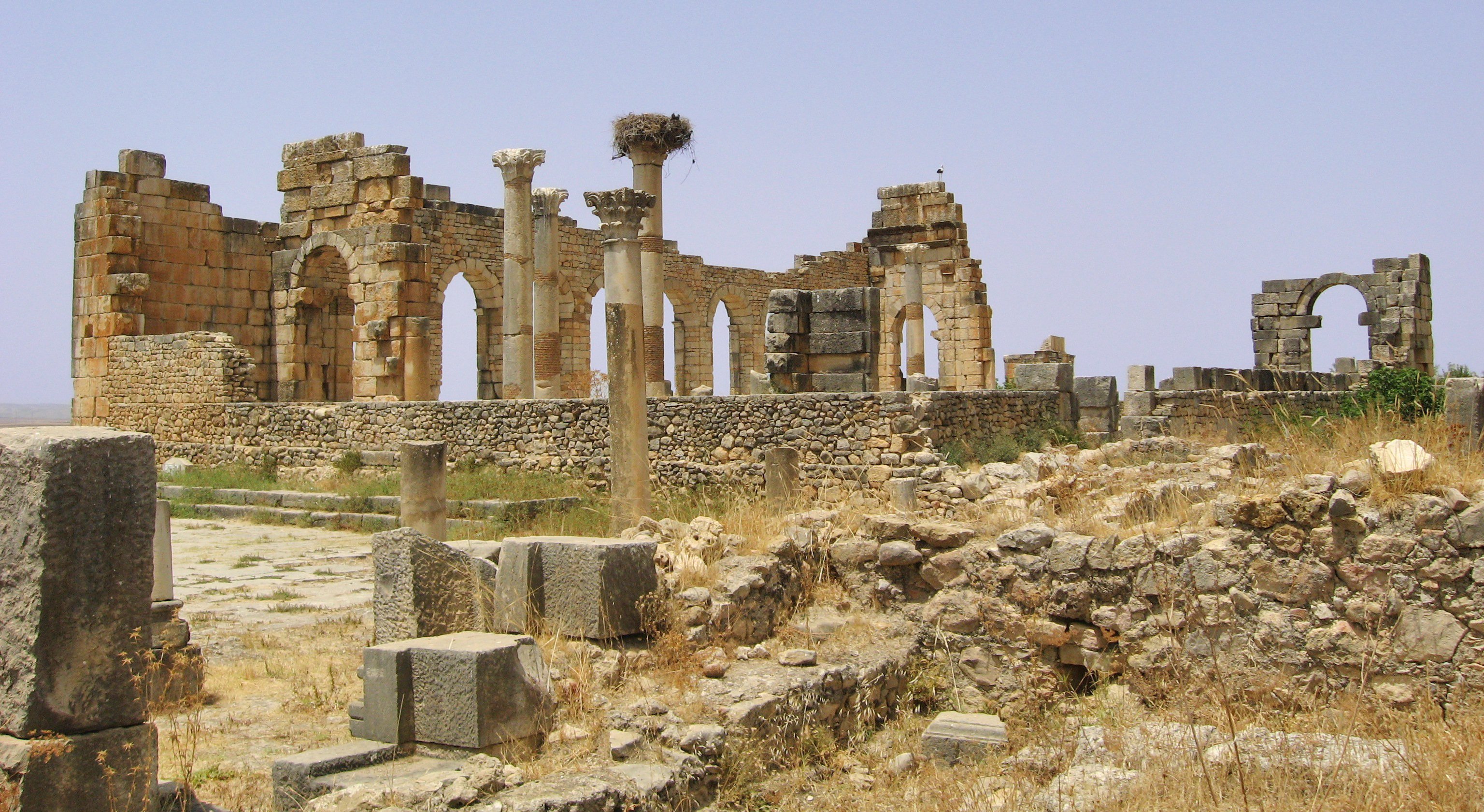 Volubilis, Marocco